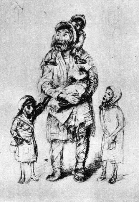 Old Jew with his children (from Warsaw Ghetto)